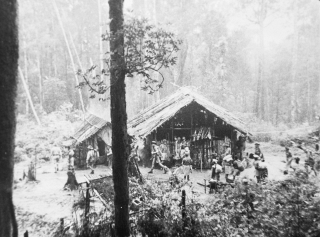 TROOPS OF "B" PLATOON, 2/5TH AUSTRALIAN INDEPENDENT COMPANY, LEAVE CAMP TO CARRY OUT A RAID. (FILM STILL)